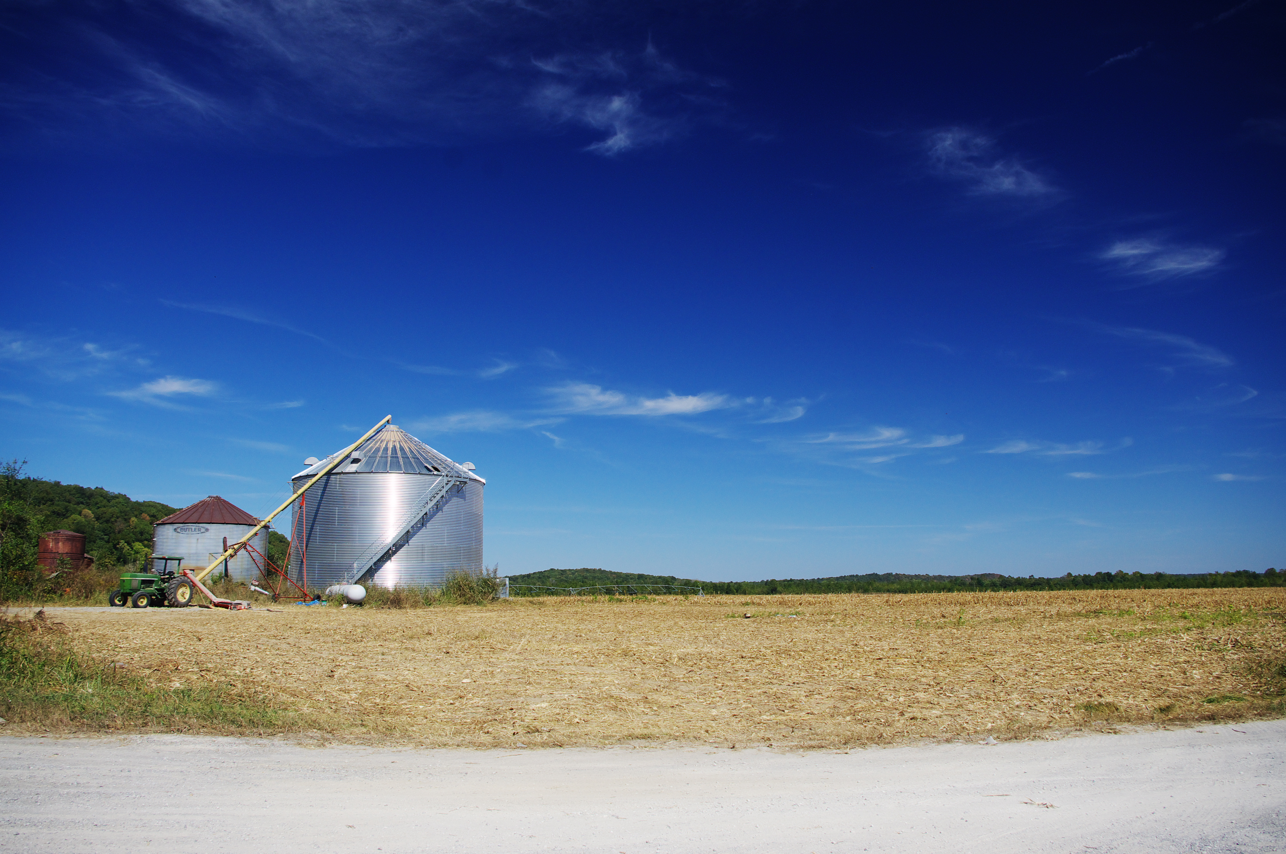 Farm in Belknap, Illinois, United States.